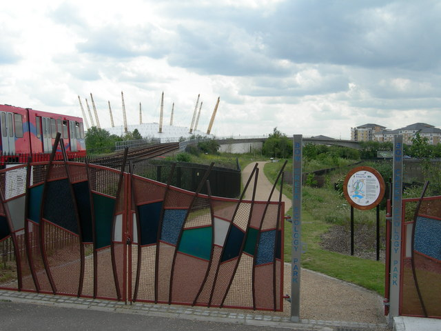 Bow Creek Ecology Park, Poplar - east London. This is a linear park, but one which curves sharply to follow the line of(lower River Lea) that is on the right. It is an educational nature park. Here is a website link that tells more